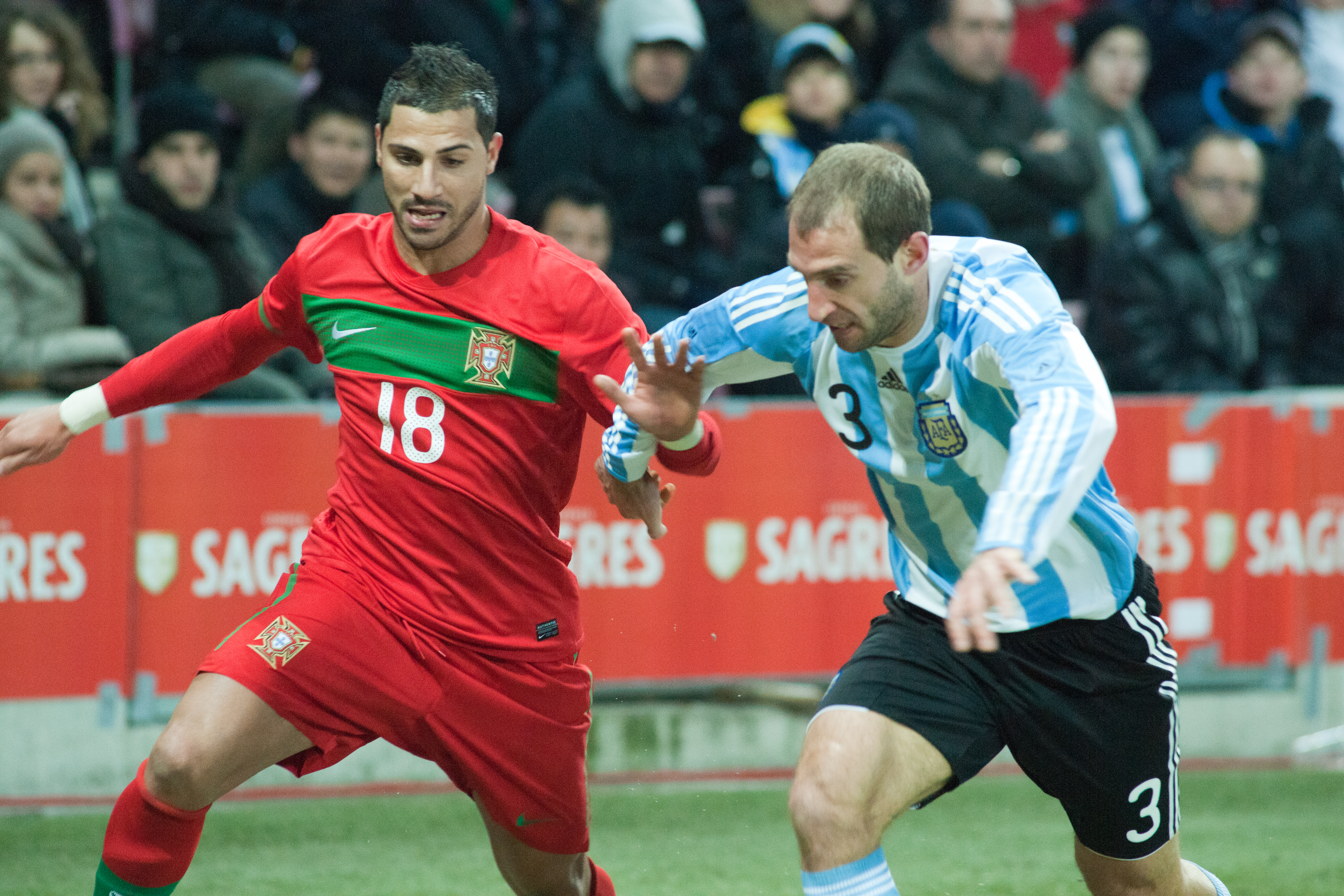 Ricardo Quaresma (left) and Pablo Zabaleta (right).